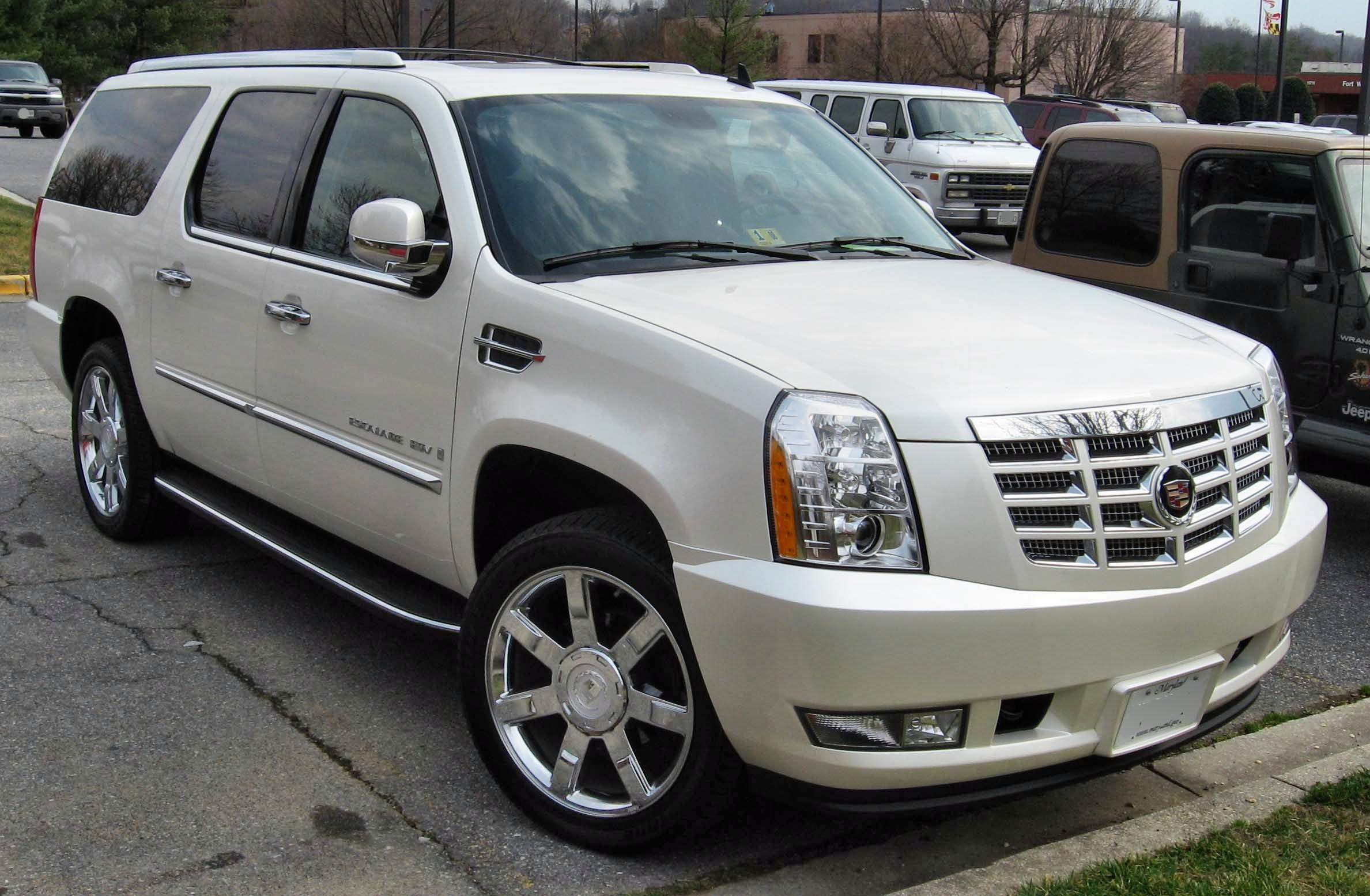 2007 Cadillac Escalade ESV photographed in USA.